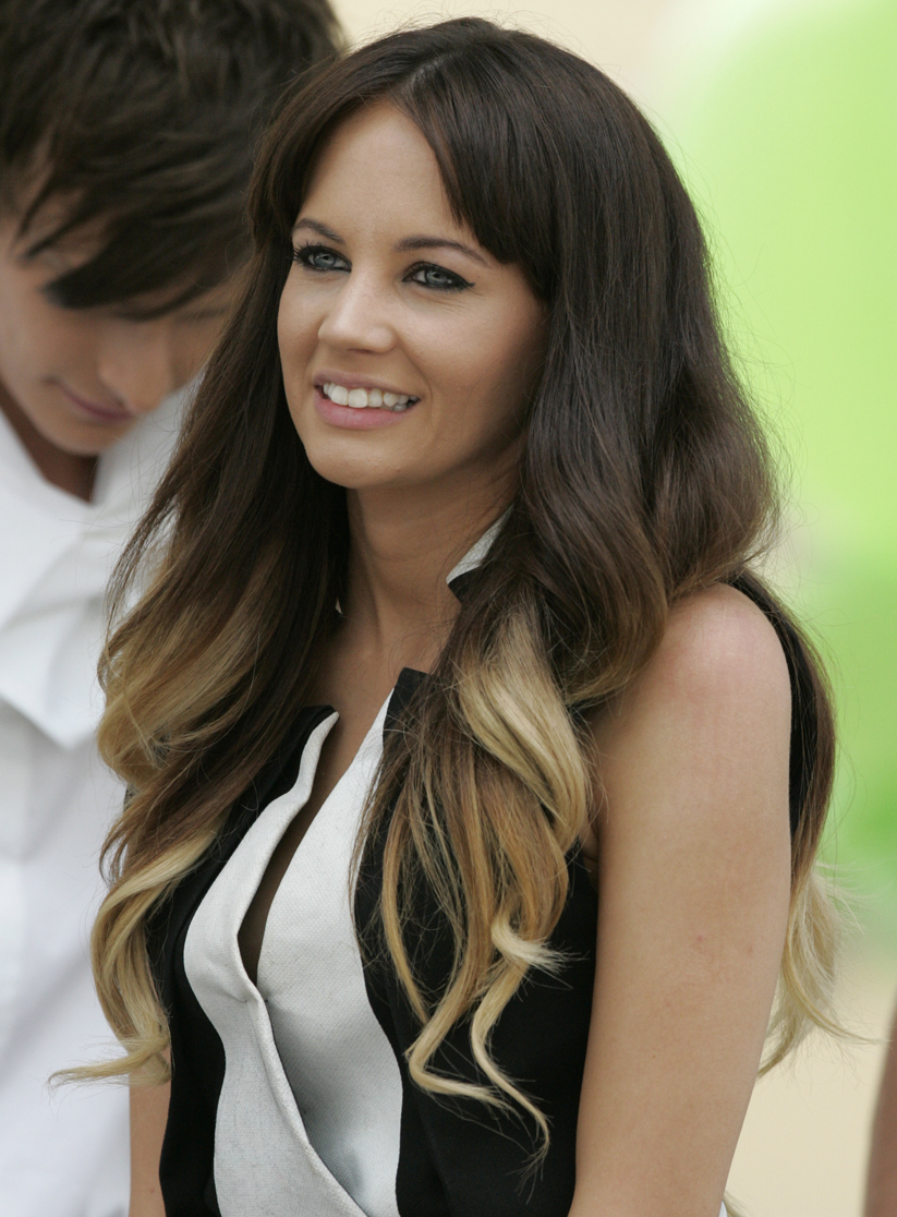 Samantha Jade at the Sydney Stars Come Out for Sony Foundation Youth Cancer Campaign - WHARF4WARD.